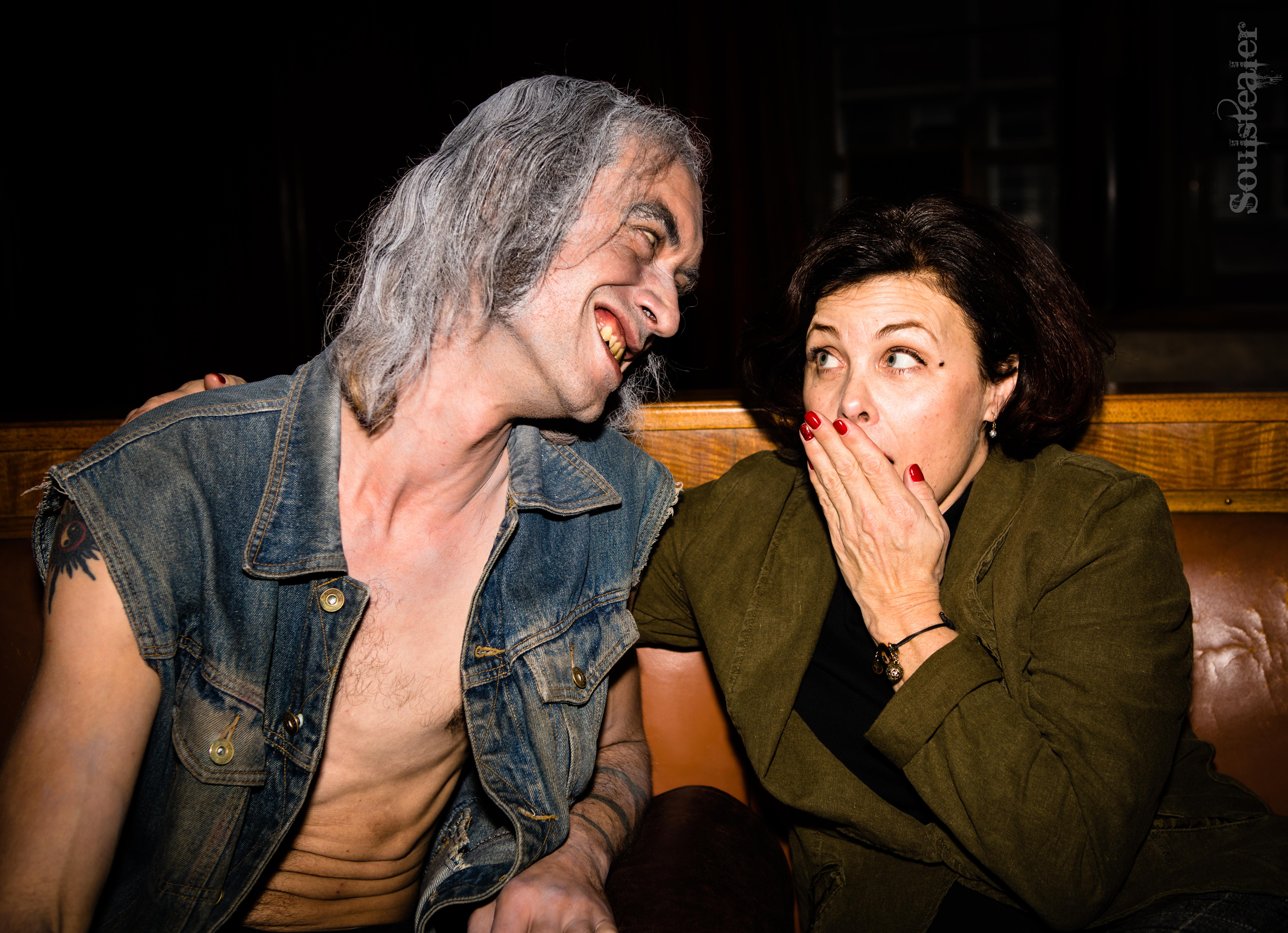 Sherliyn Fenn with somebody cosplaying as Killer BOB, 2017